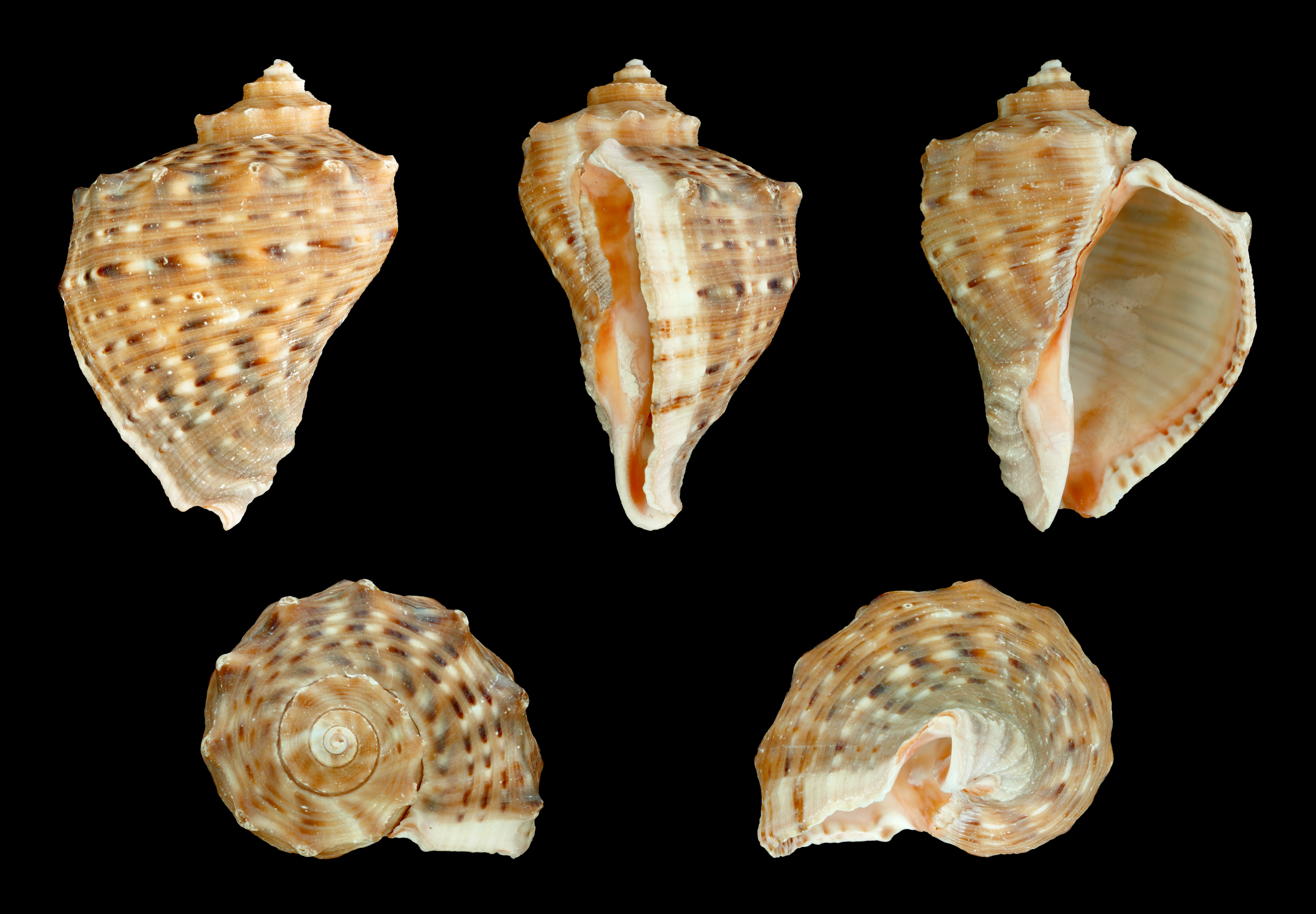 Thomas's Rapa Whelk, Length 6.5 cm; Originating from Japan; Shell of own collection, therefore not geocoded. Dorsal, lateral (right side), ventral, back, and front view.